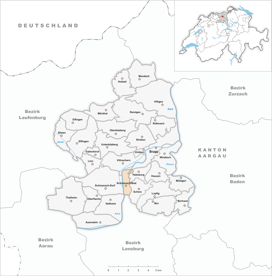 Municipality Schinznach-Bad